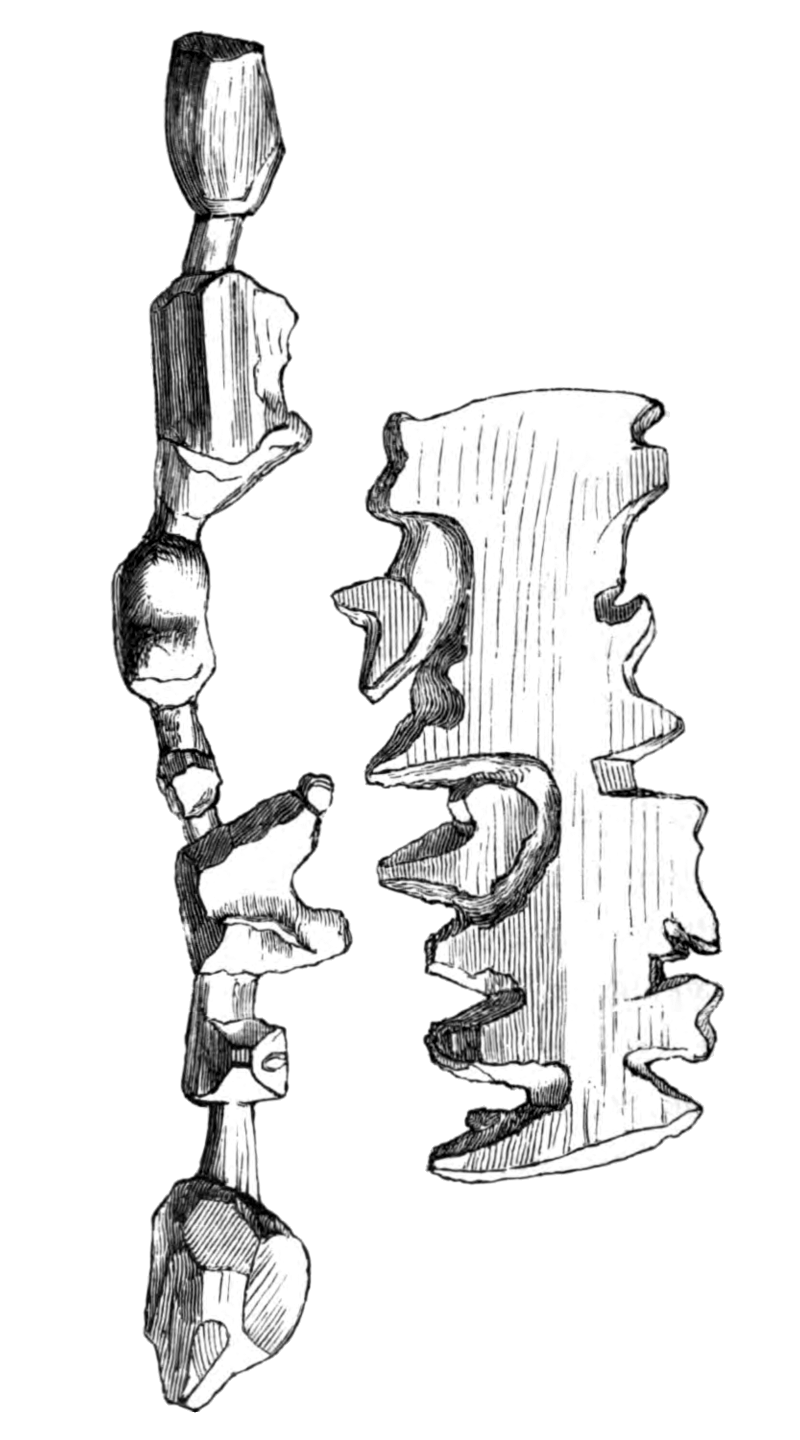 Wooden maps of the east coast of Greenland collected by Gustav Holm's expedition circa 1883. Original caption: "Trækort."